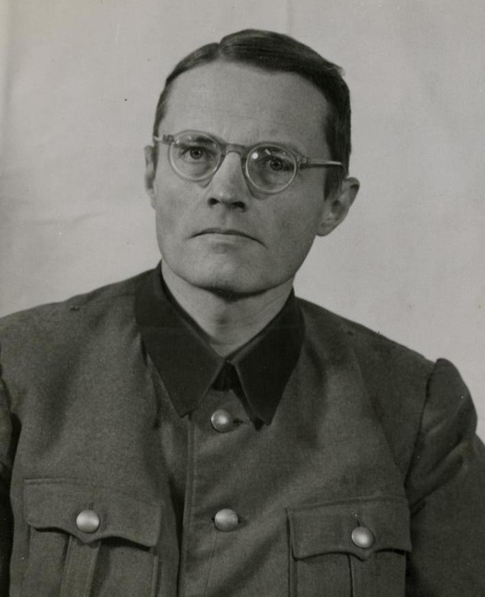 Hermann Cuhorst (1899-1991) was Chief Justice of Special Court in Stuttgart during the Second World War. This photograph of Cuhorst (probably as a defendant during the Nurmeberg Trials No. III - the Justice Case) was taken by US Army photographers on behalf of the Office of the U.S. Chief of Counsel for the Prosecution of Axis Criminality (OUSCCPAC, May 1945 - Oct. 1946) or its successor organization, the Office of Chief of Counsel for War Crimes (OCCWC, Oct. 1946 - June 1949).